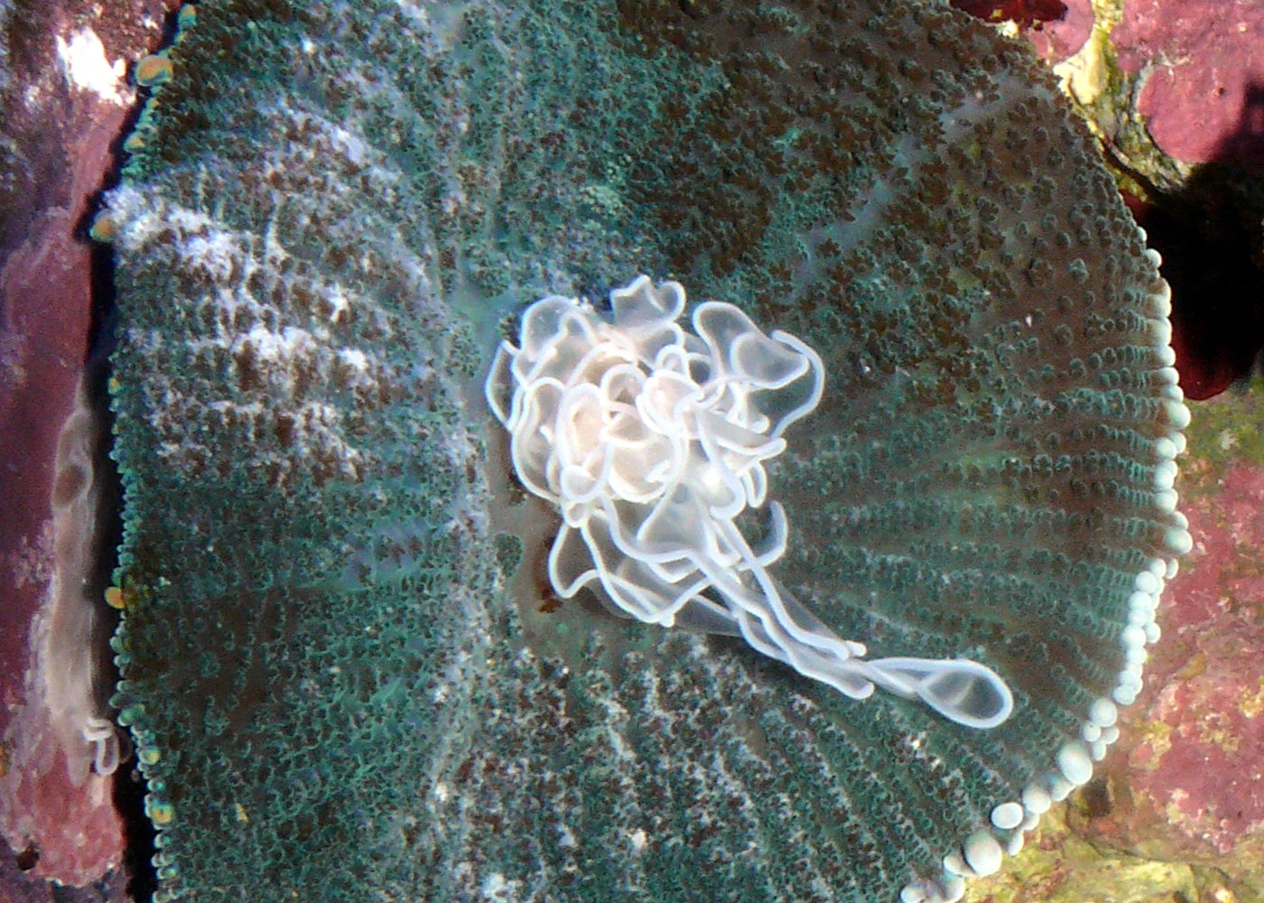 Rhodactis cf. inchoata